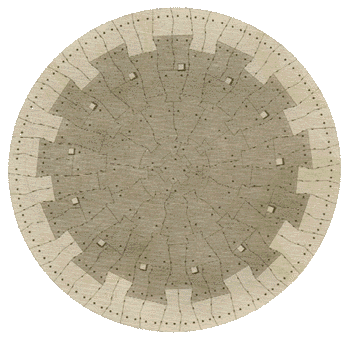 Detail of the first course of stones of Bell Rock Lighthouse